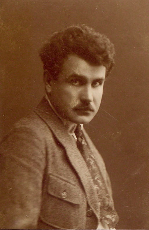 Bulgarian writer Sirak Skitnik (1883-1943)